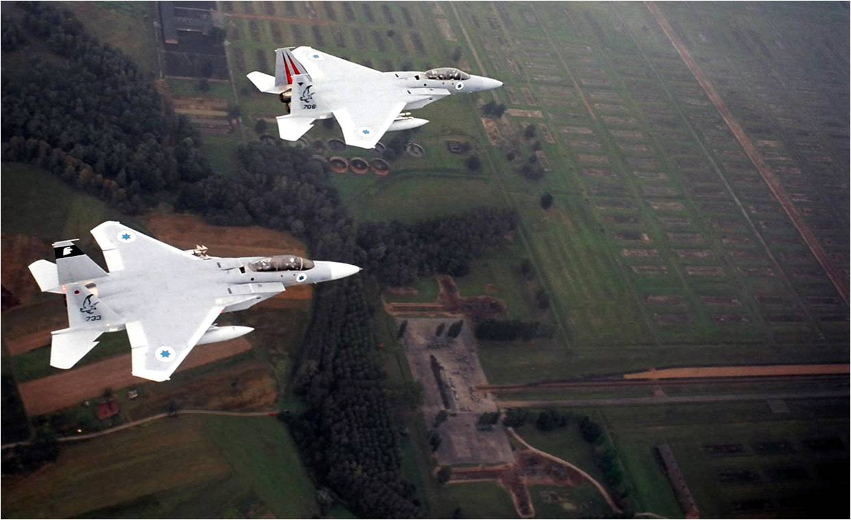 Auschwitz extermination camp